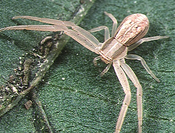 female Runcinia albostriata from Okinawa.